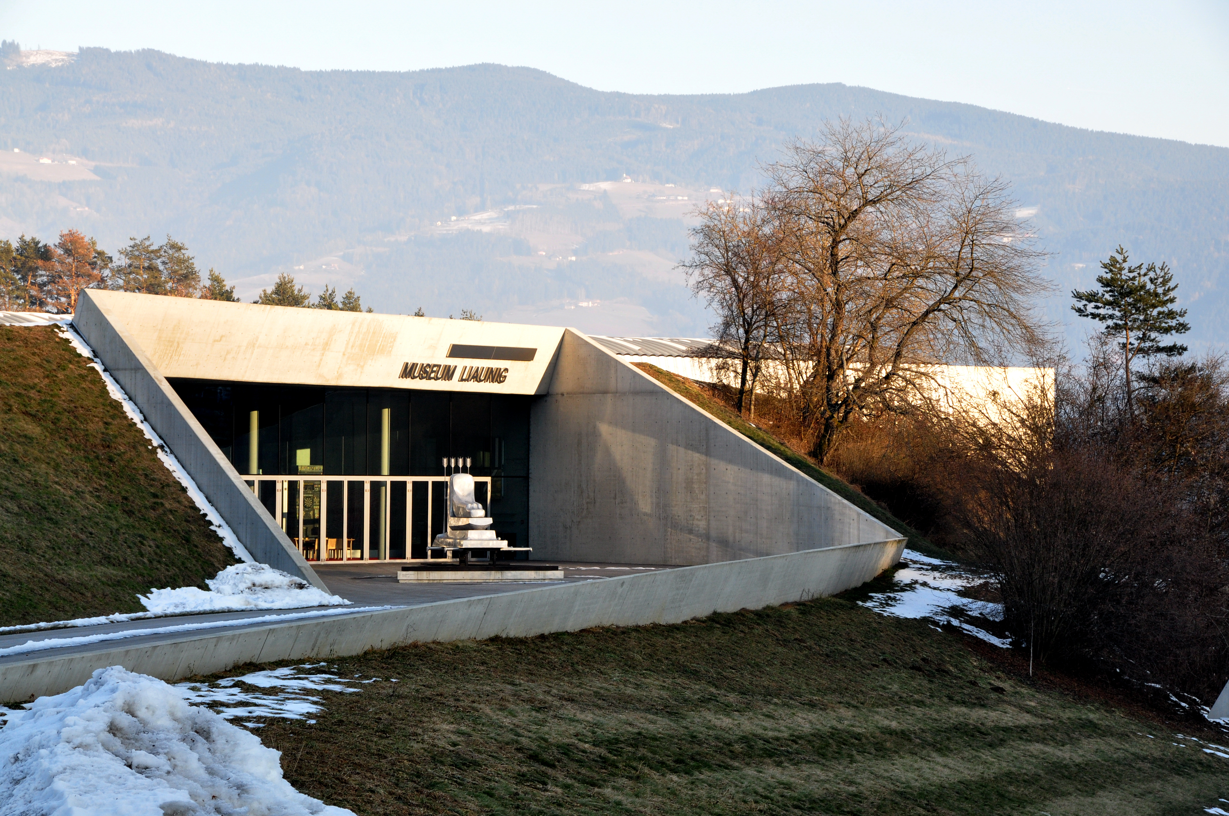 Museum Liaunig, architecture by Querkraft, municipality Neuhaus, district Voelkermarkt, Carinthia, Austria, EU